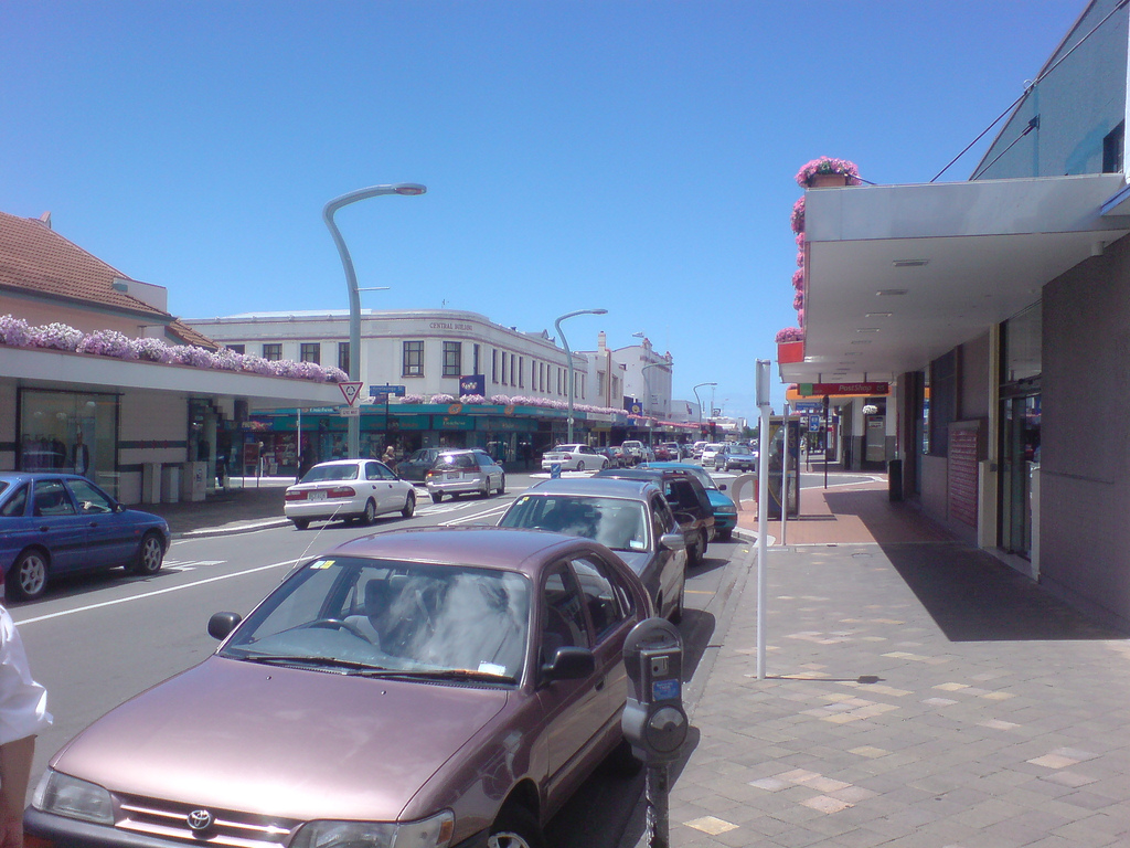 View along Market Street in Hastings.